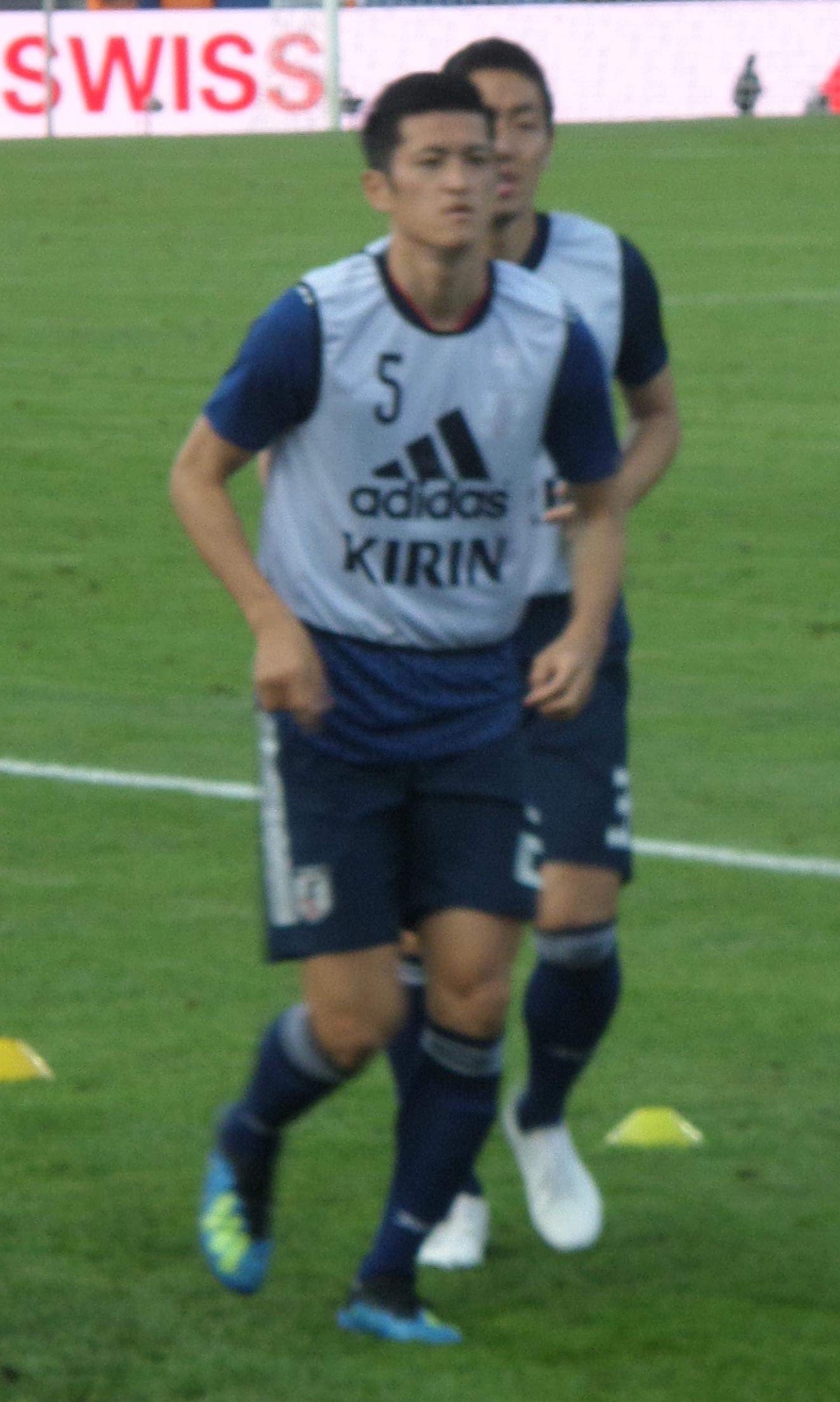 Naomichi Ueda at Switzerland vs Japan (June 2018)